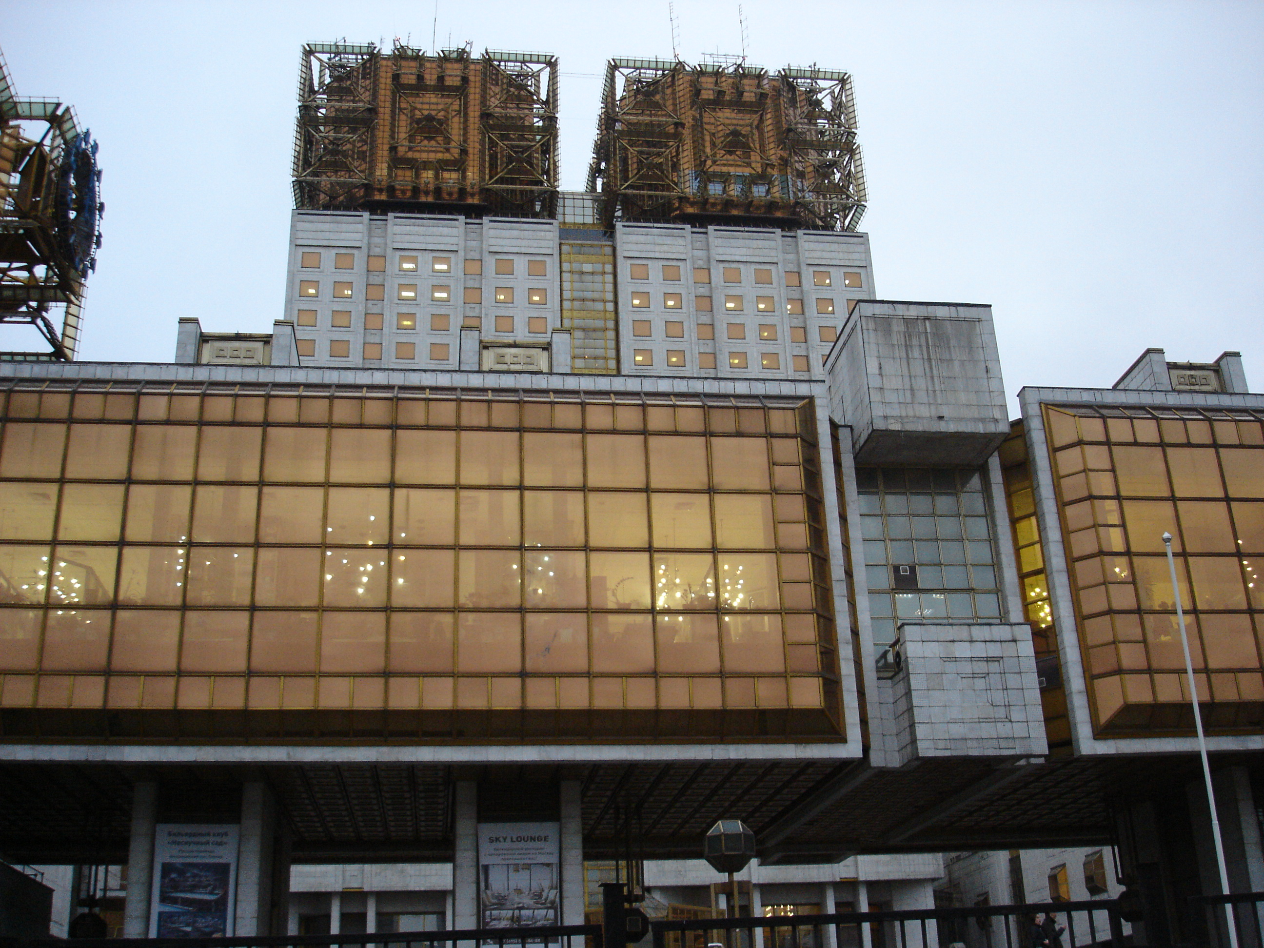 Praesidium of the Russian Academy of Sciences building, Moscow, Russia. View on the entrance.